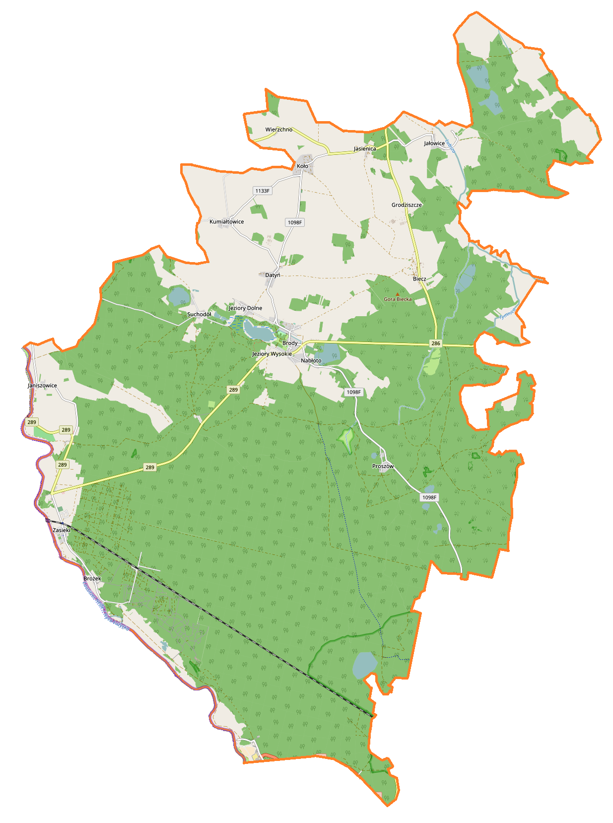 Location map